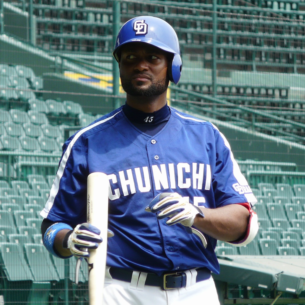 Joel Guzmán, outfielder of the Chunichi Dragons, at Hanshin Koshien Stadium.